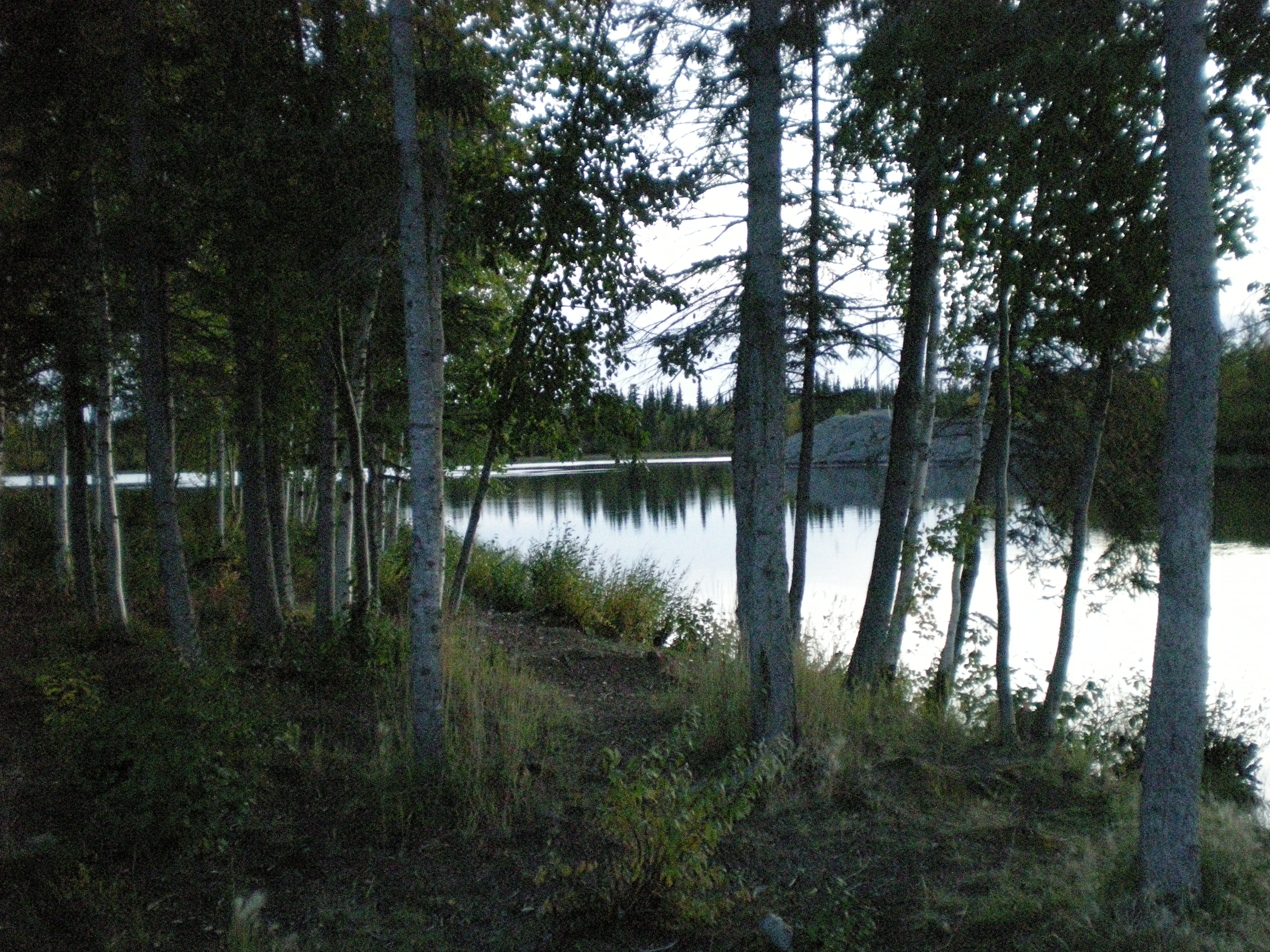 The Yellowknife River, about 9.1 km (5.7 mi) from Yellowknife, looking downstream.